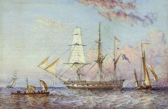 HMS Rattlesnake. Watercolour, 138 mm x 211 mm. National Maritime Museum, London.